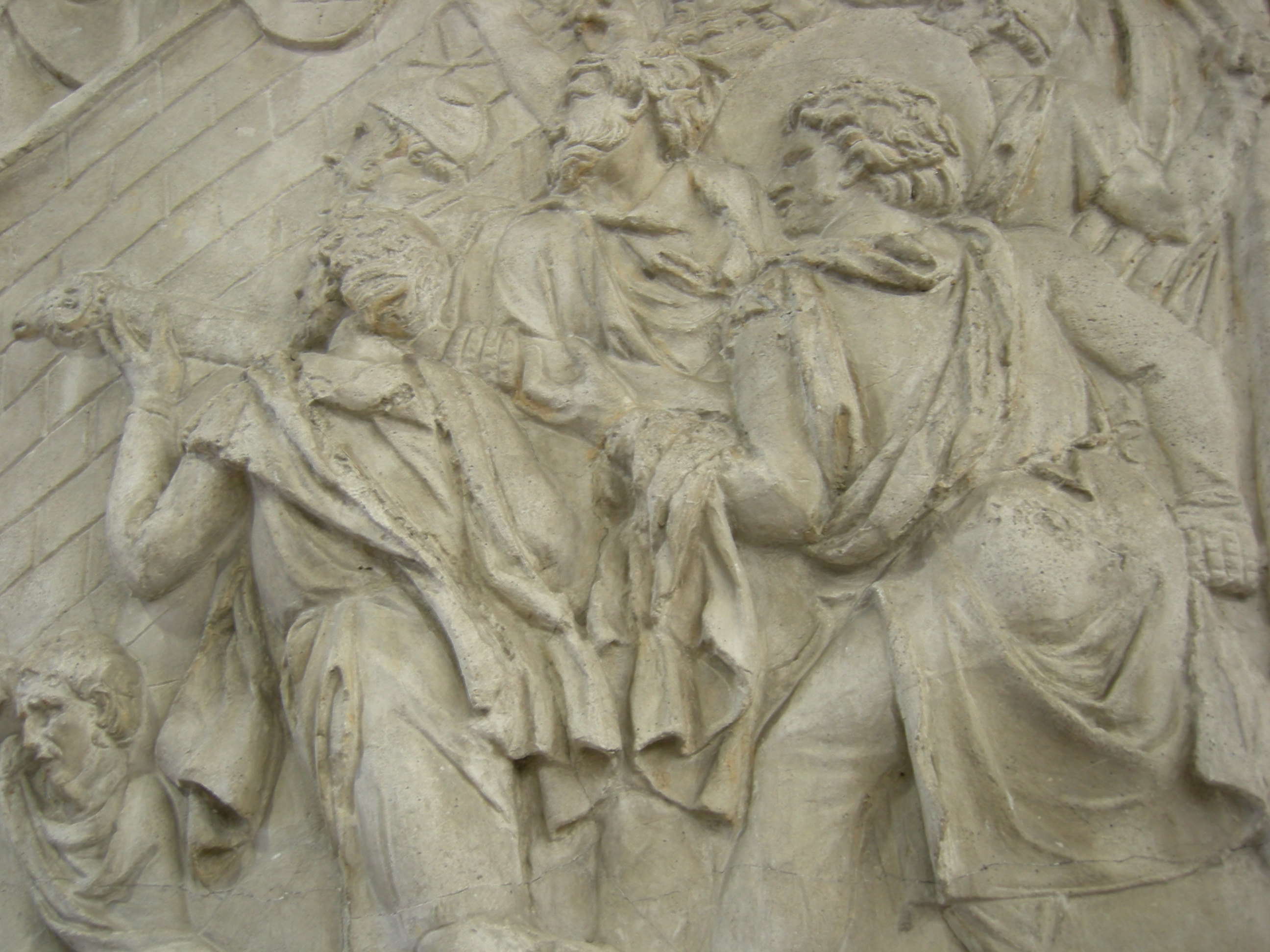 The Dacians and their allies attack Trajan's soldiers in Dobrugea. From Trajan's Column; this is from the plaster-cast reproduction at the Museum of Romanian History in Bucharest, Romania